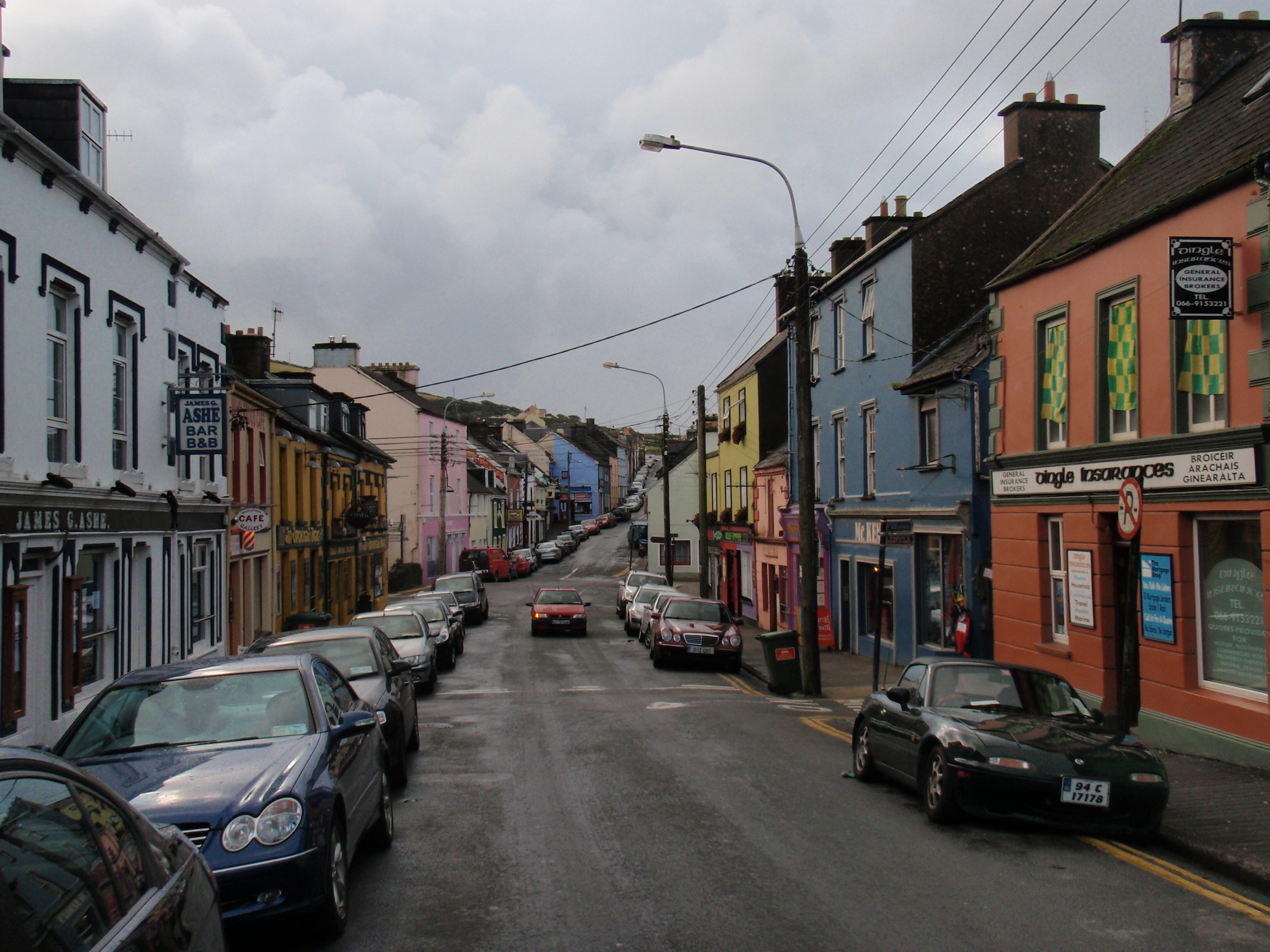 Ireland